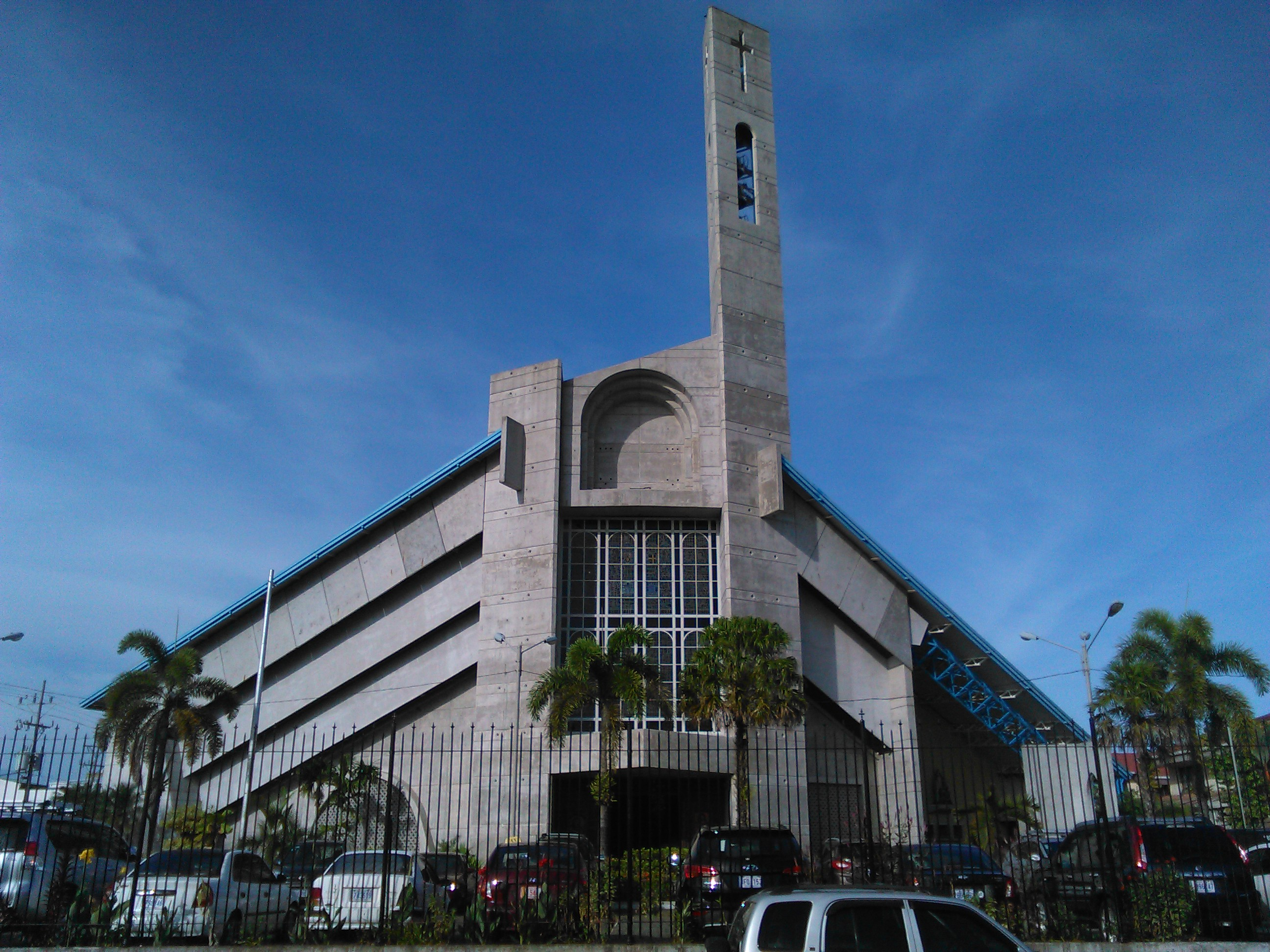 Front view of Limón's cathedral